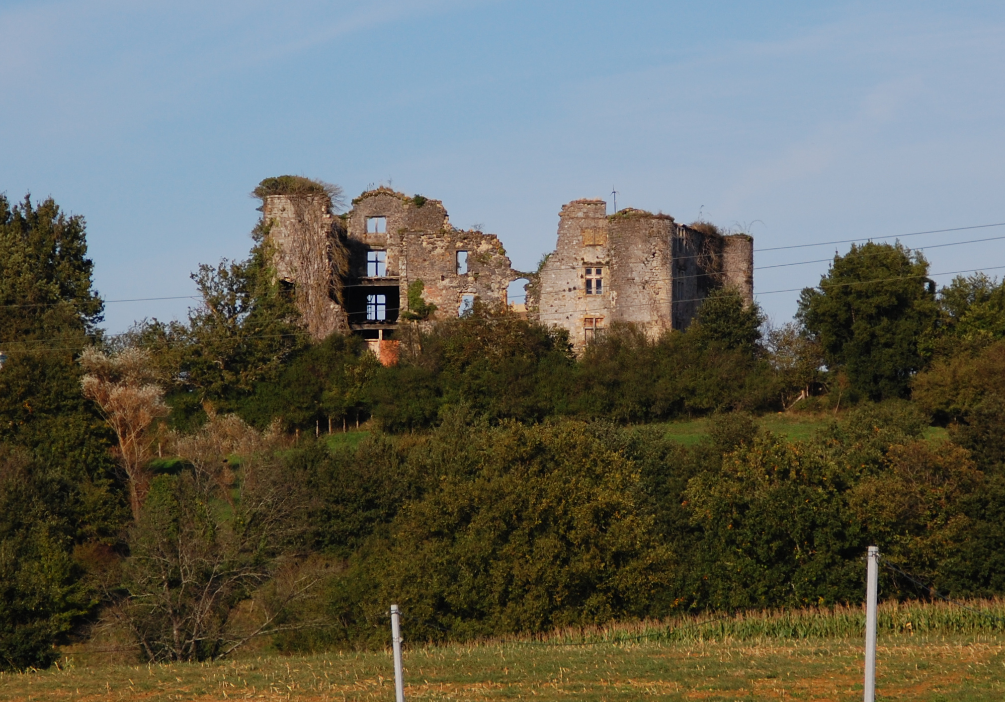 Beltzuntz castle.